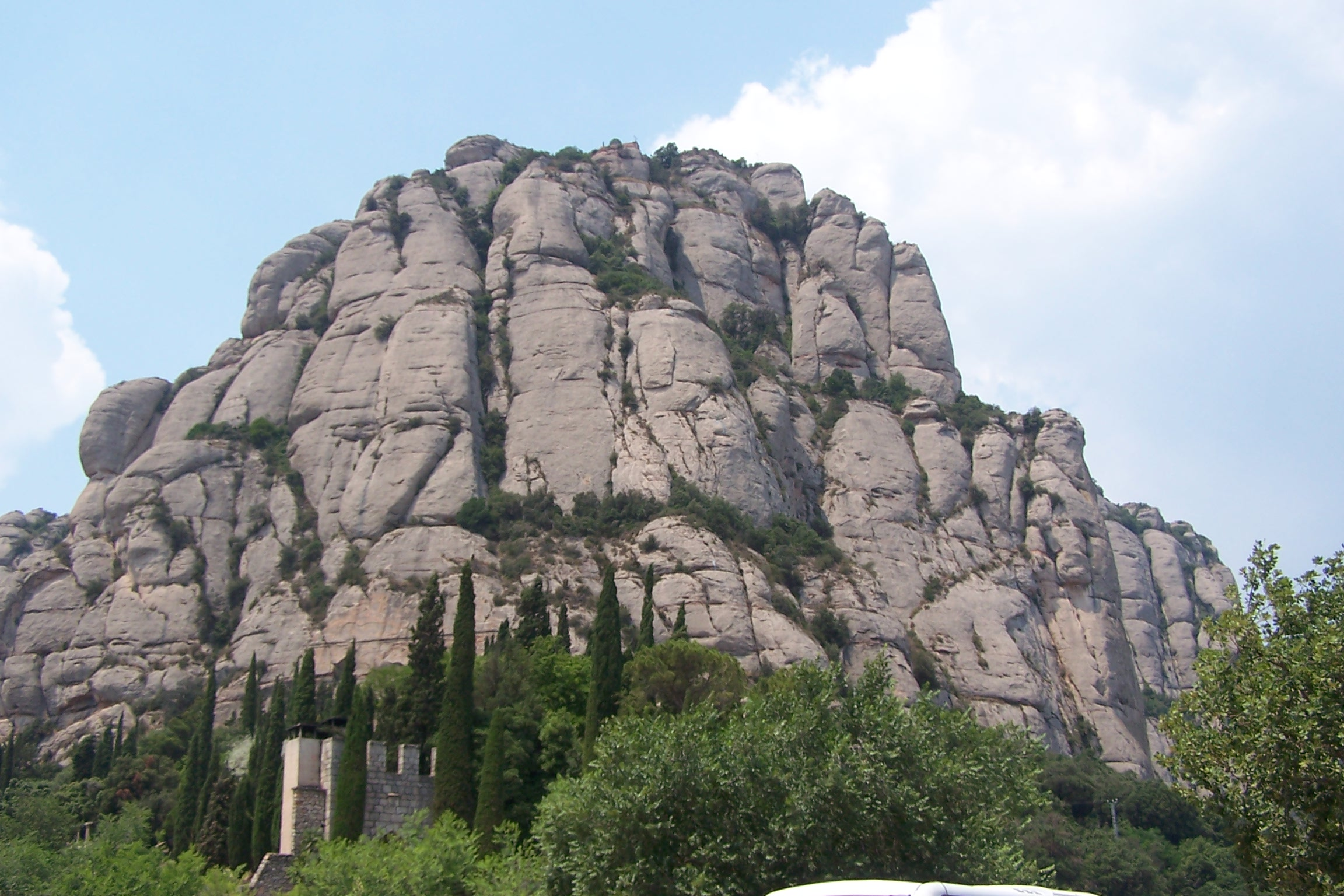 Upper portion of Montserrat, mountain in Catalonia/Catalunya. A small portion of the monastery there can be seen near bottom. Eigen werk, 30-06-2006